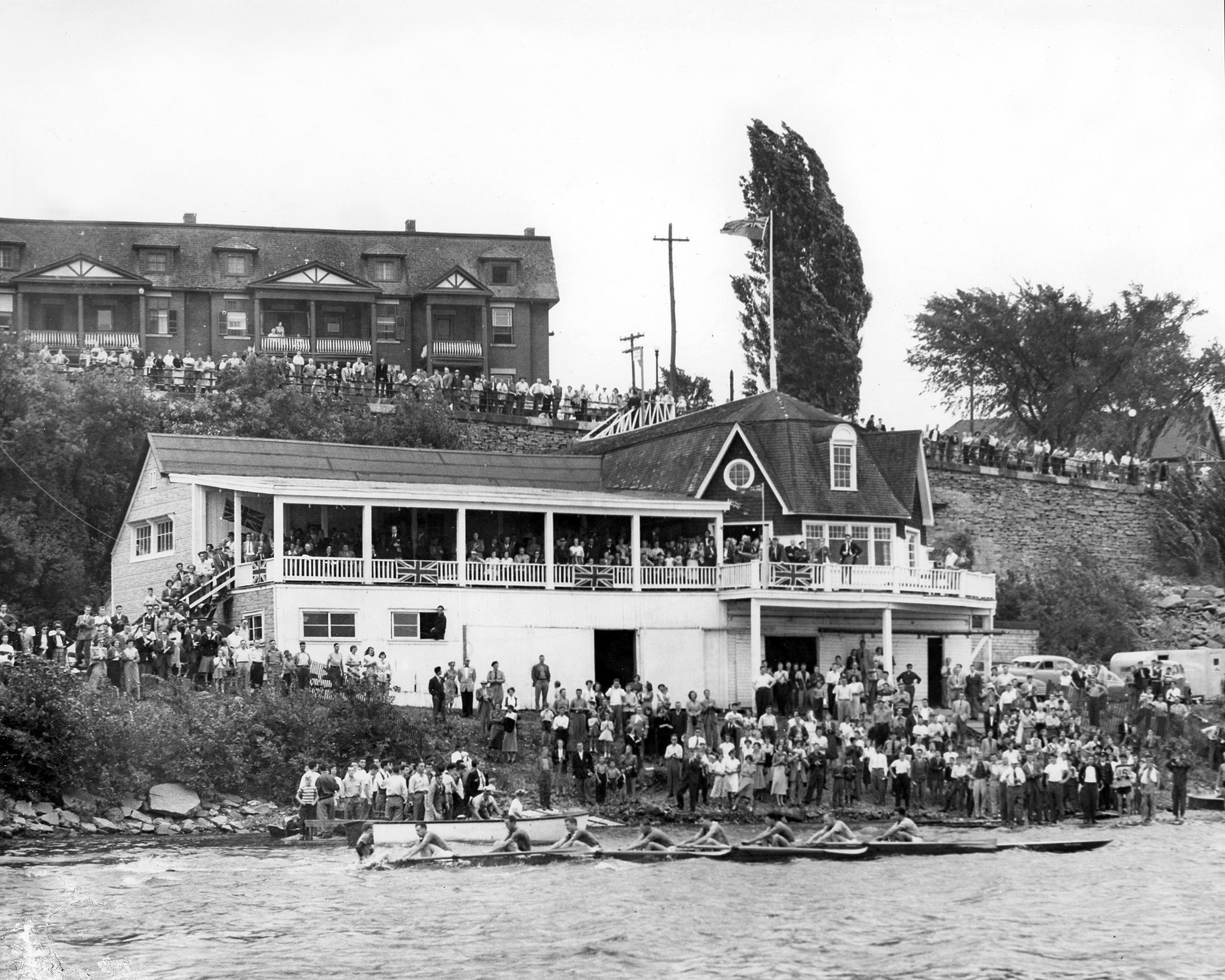 Finish line for the 1951 P. D. Ross Memorial rowing race at the Ottawa Rowing Club, Canada